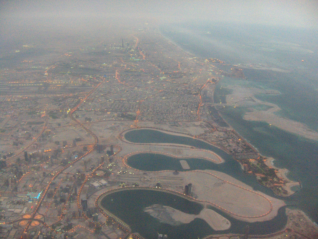 on approach via the new Delta nonstop from Atlanta... coming in from the north, but landing facing out to sea